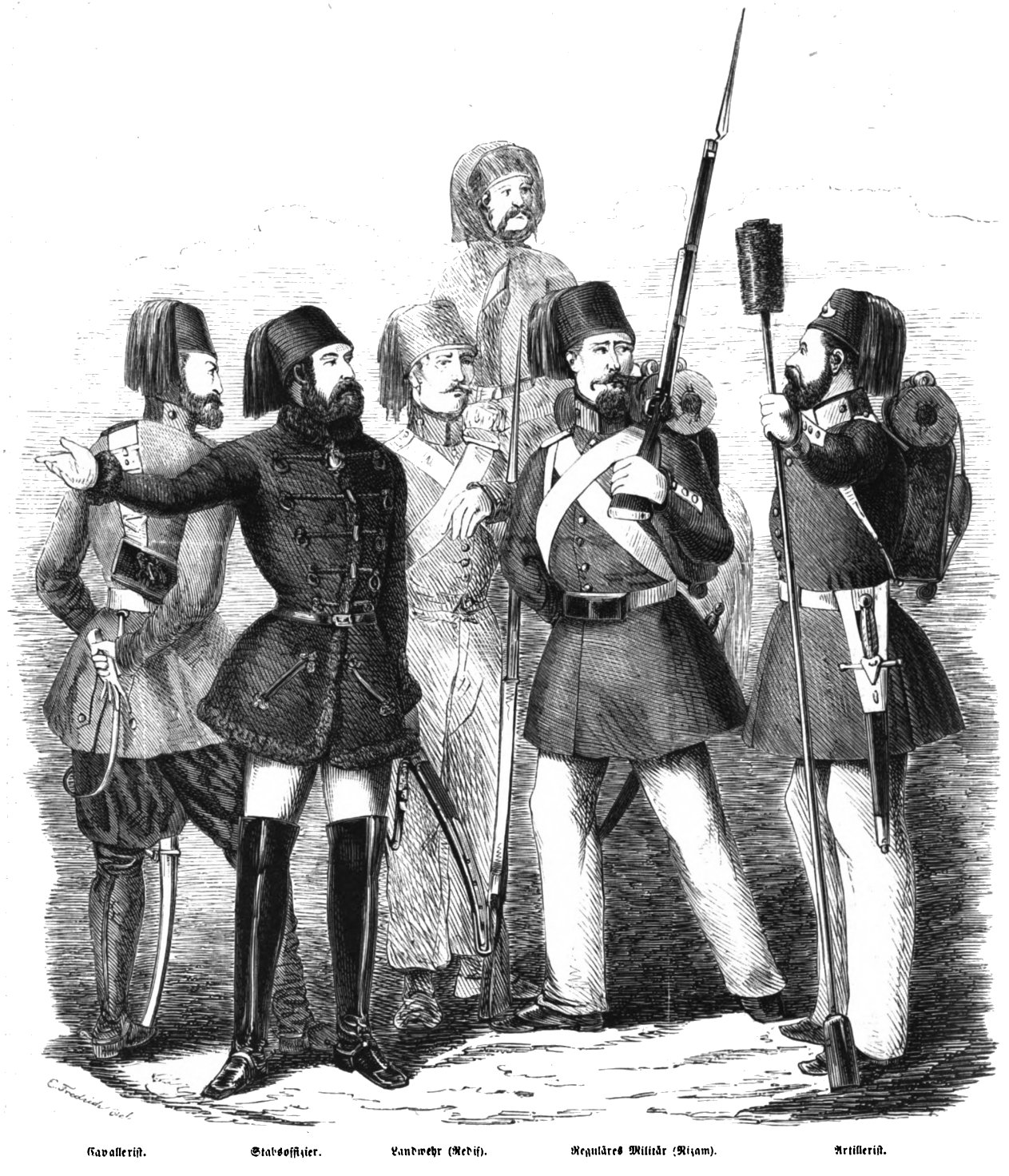 caption: "Kavallerist. Stabsofficier. Landwehr (Redif). Reguläres Militär (Nizam). Artillerist."